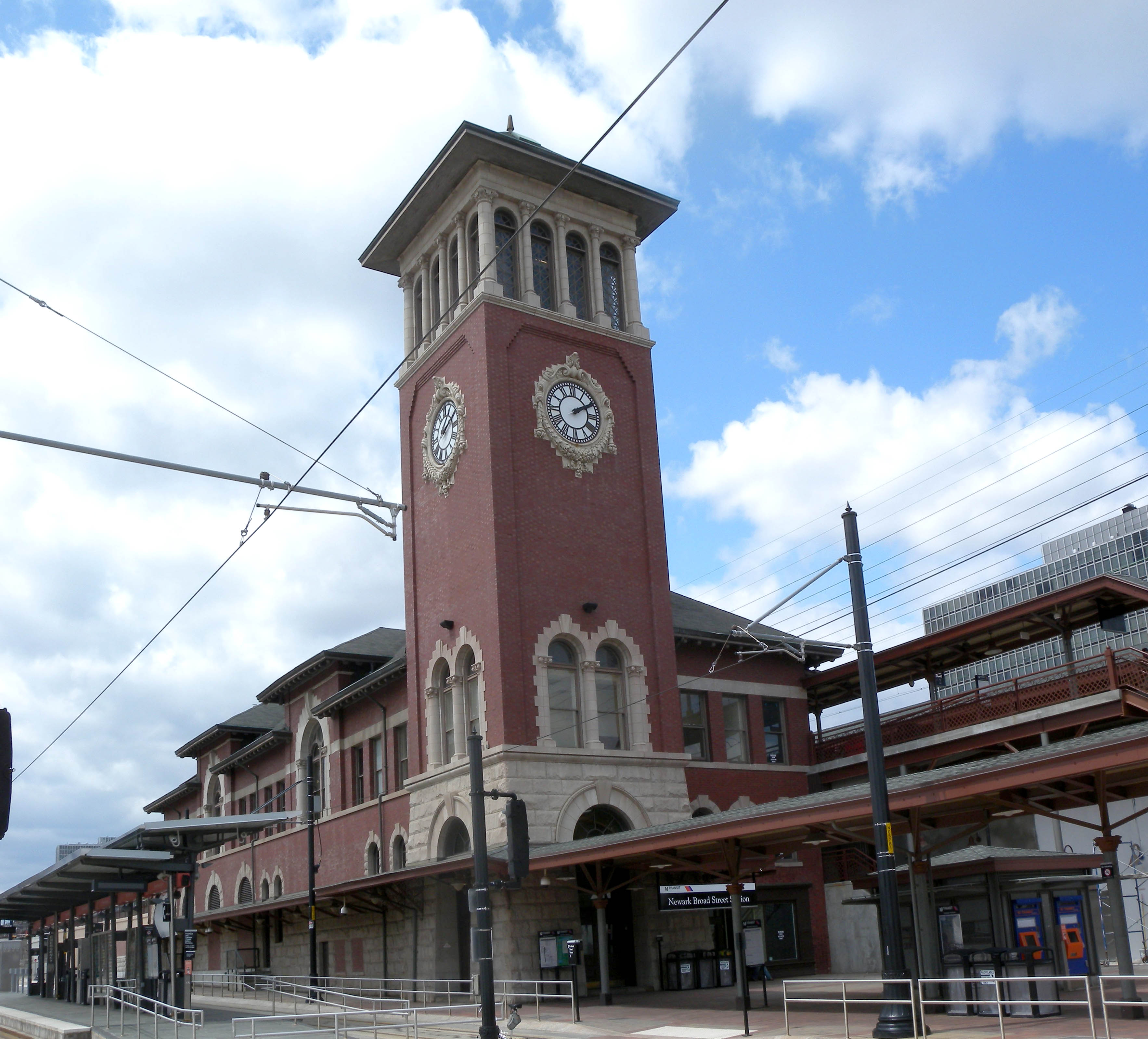 Looking west from Broad Street at Newark railroad station on a sunny midday.